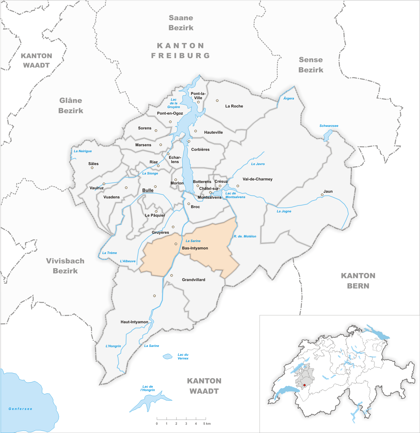 Municipality Bas-Intyamon